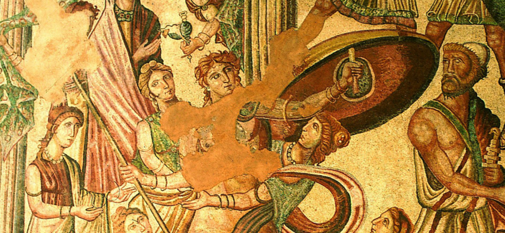 A scene from the Iliad where Odysseus (Ulysses) discovers Achilles dressed as a woman and hiding among the princesses at the royal court of Skyros. A late Roman mosaic from La Olmeda, Spain, marble and tiled glass, 2.20 by 2.50 meters. For full descriptions (in Spanish), see: "Destino Castilla y León" (13 August 2014) and "La Diputación de Palencia aprueba el proyecto básico de la villa romana de La Olmeda, donde se invertirán 6,3 millones" (26 May 2005).